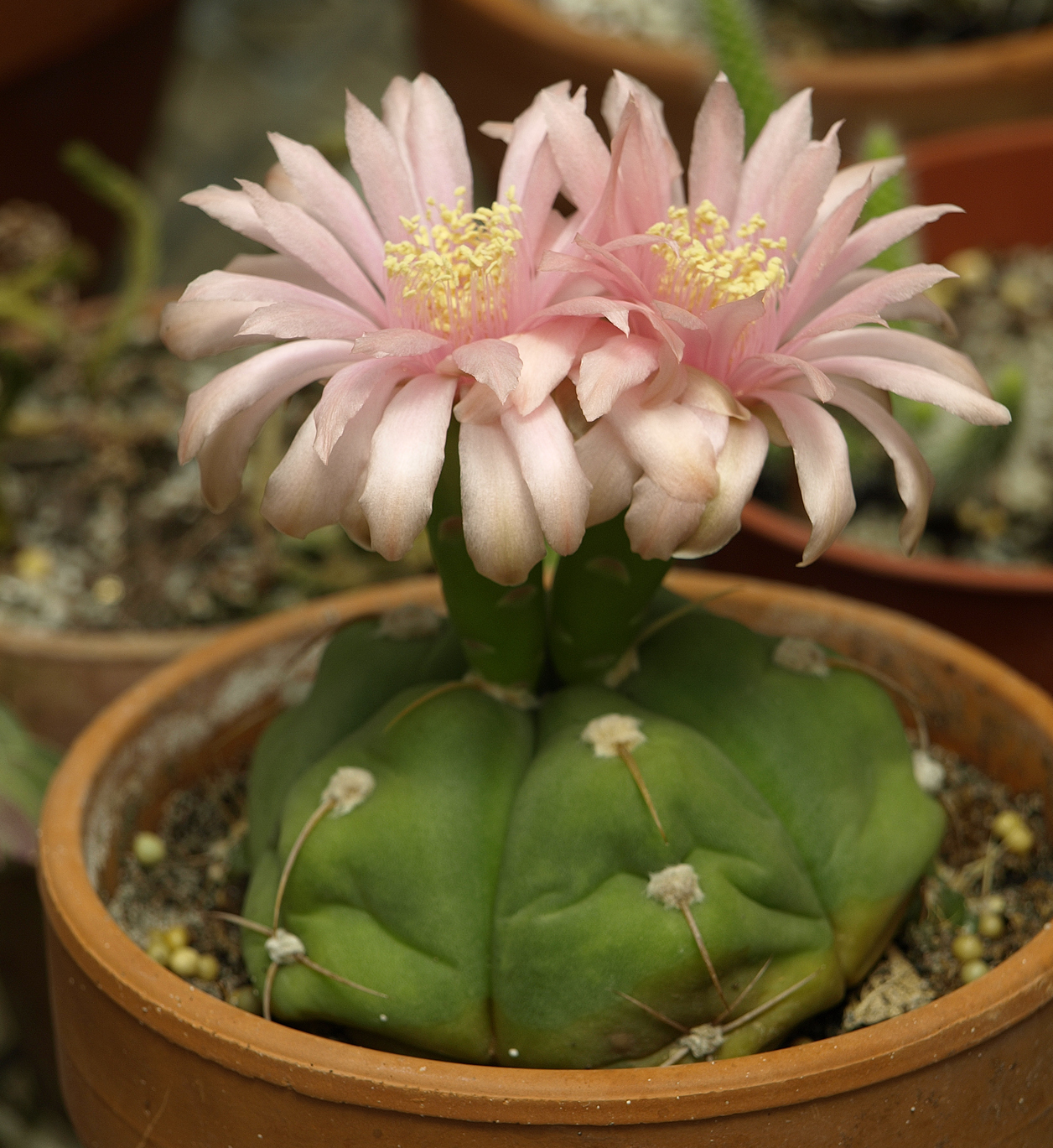 Gymnocalycium horstii. Greenhouse, Florida International University, Miami, Florida, USA. Flowers are about 2 inches across, and opened fully in the late afternoon. 1-5 spines per areole.